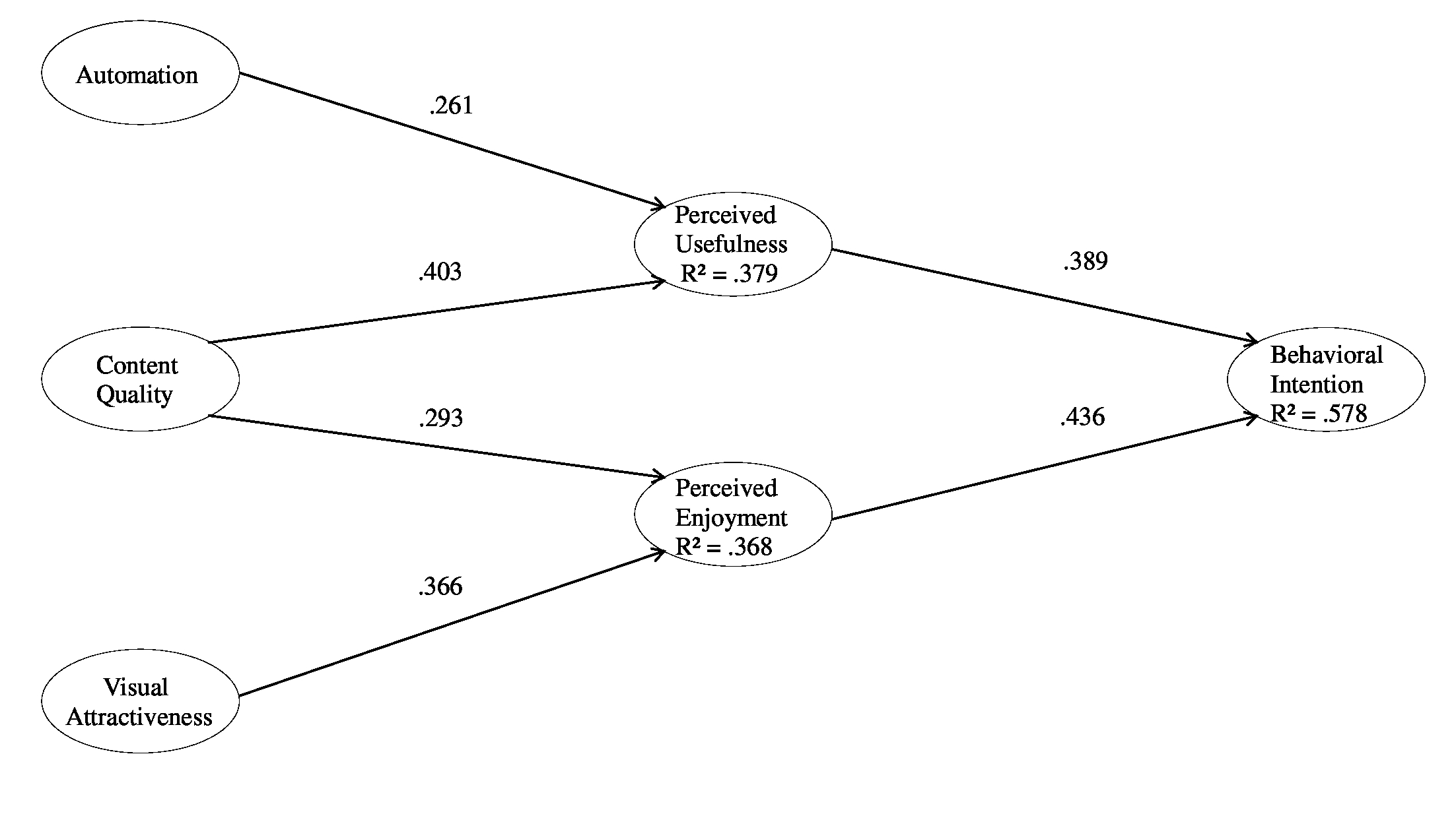 Graphical results of the study